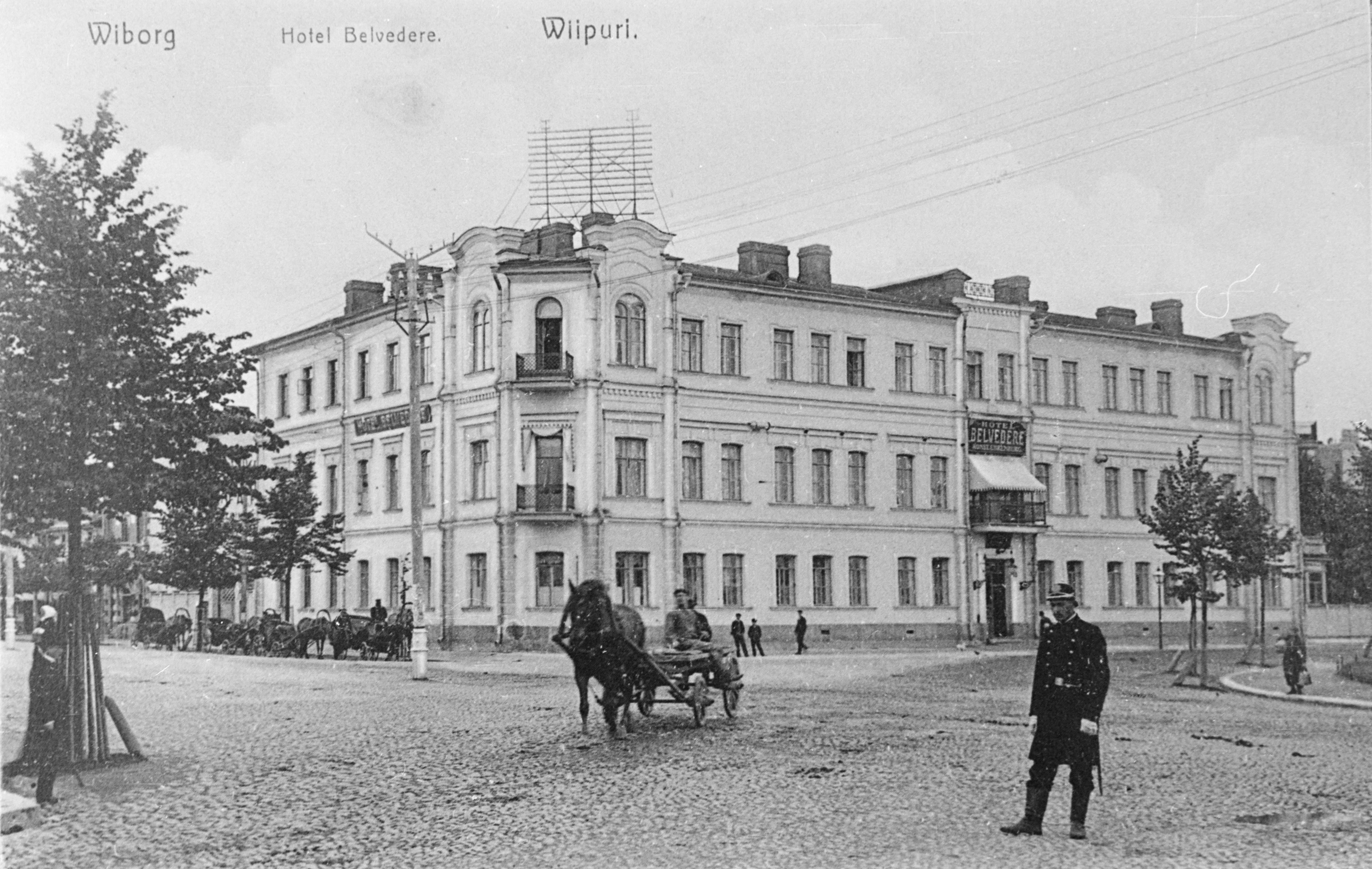 Hotel Belvedere in Vyborg, pre-1910.